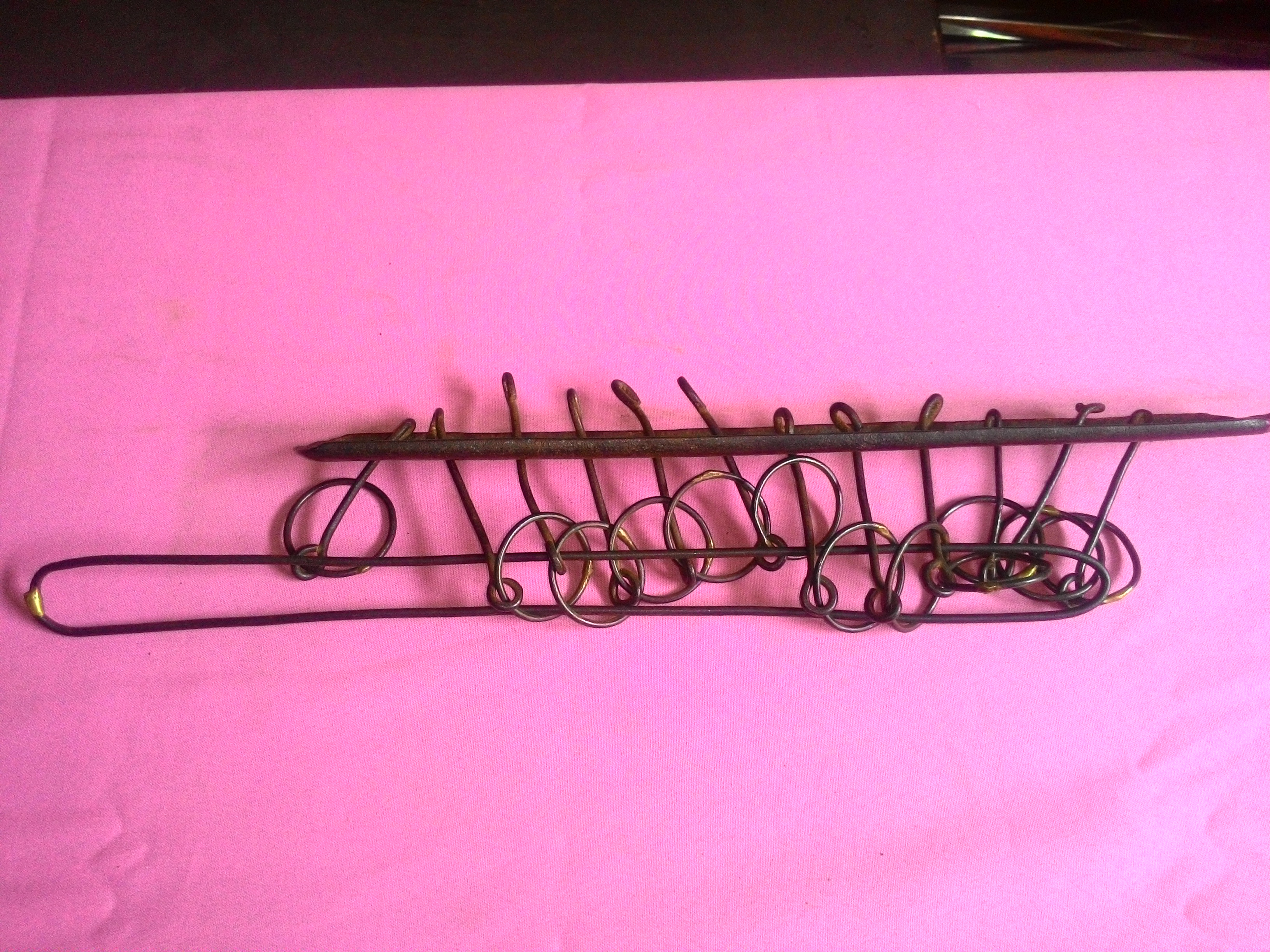 old game of unfolding